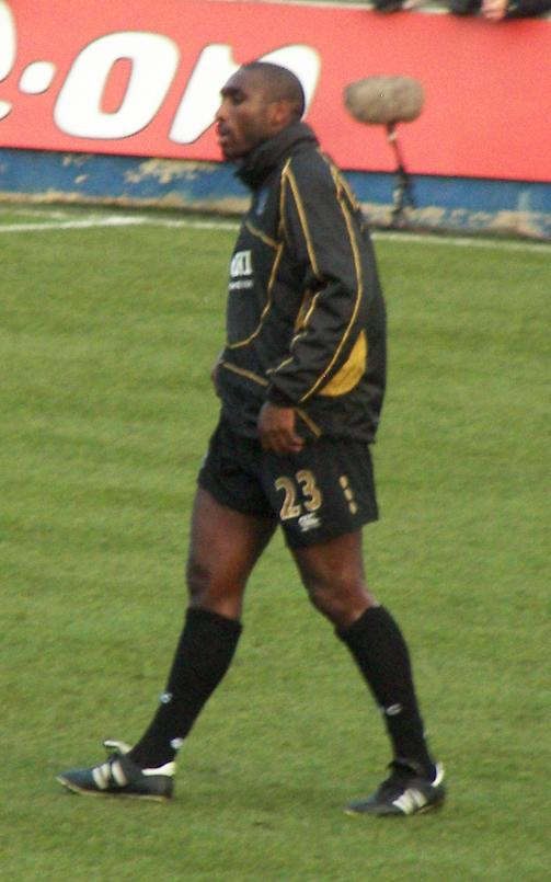 English footballer Sol Campbell